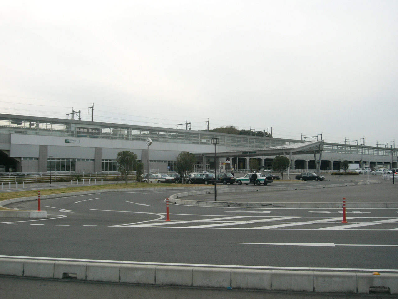 Honjowaseda Station (North Entrance)